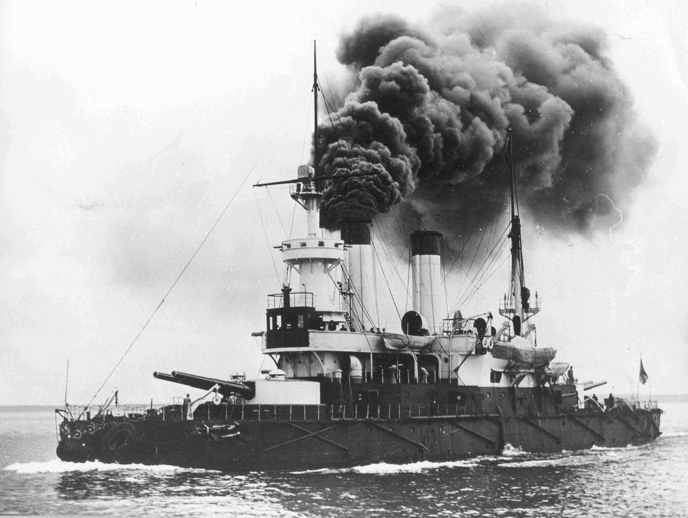 Imperial Russian coastal battleship IJN Admiral Senyavin, 1901.